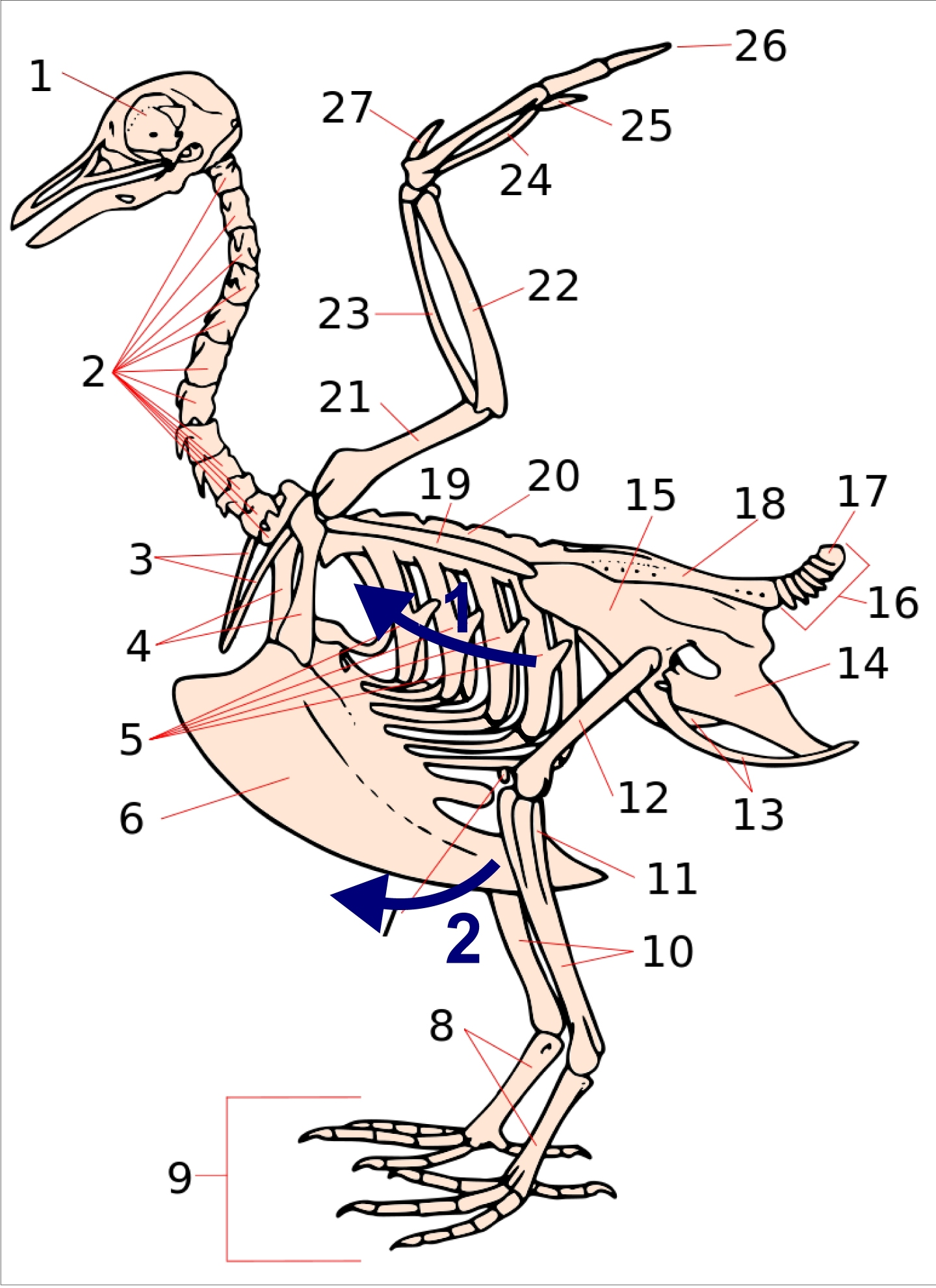 Adapted from "File:Squelette oiseau.svg" as modified by User:Mario modesto, to show the movement of the chest during inhalation in birds